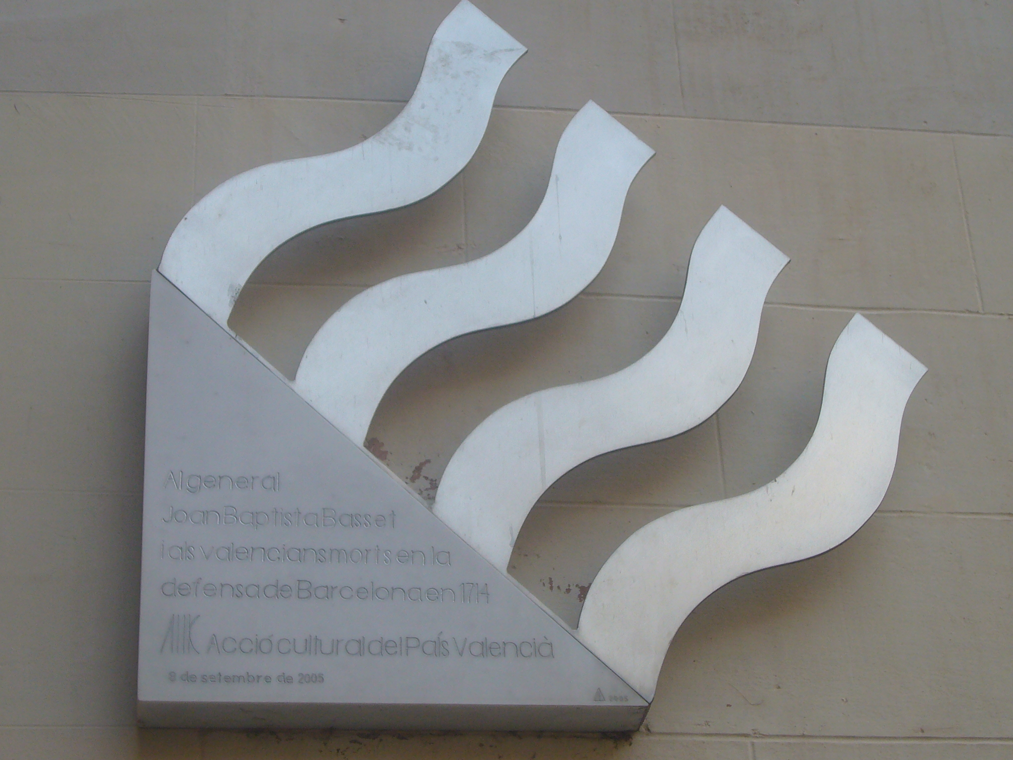 Plaça del Fossar de les Moreres, numero, 2 - Placa d'Acció Cultural del País Valencià, dedicada al general Joan Baptista Basset